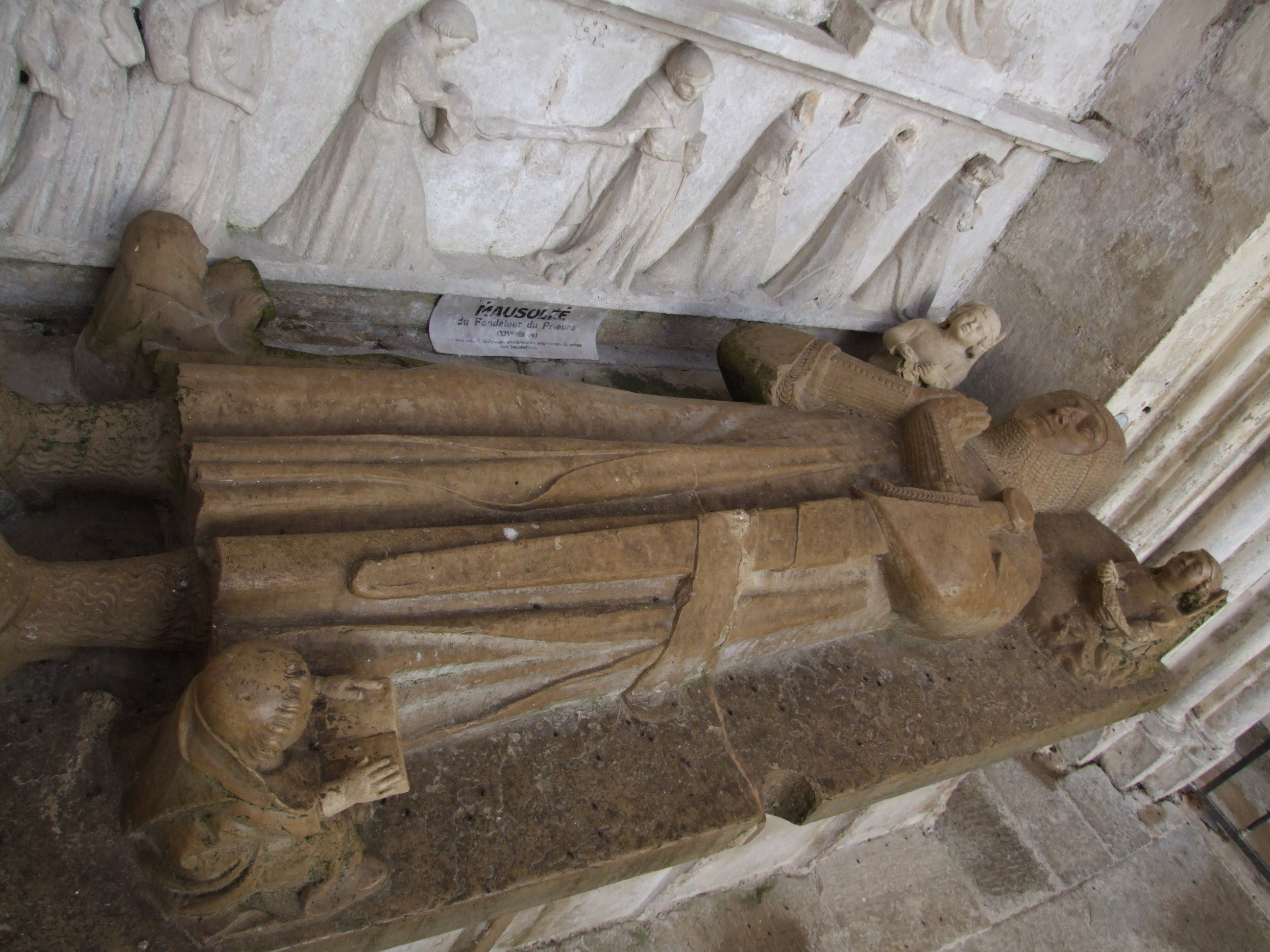 Saint-Thibault Church, Saint-Thibault , Burgundy, FRANCE